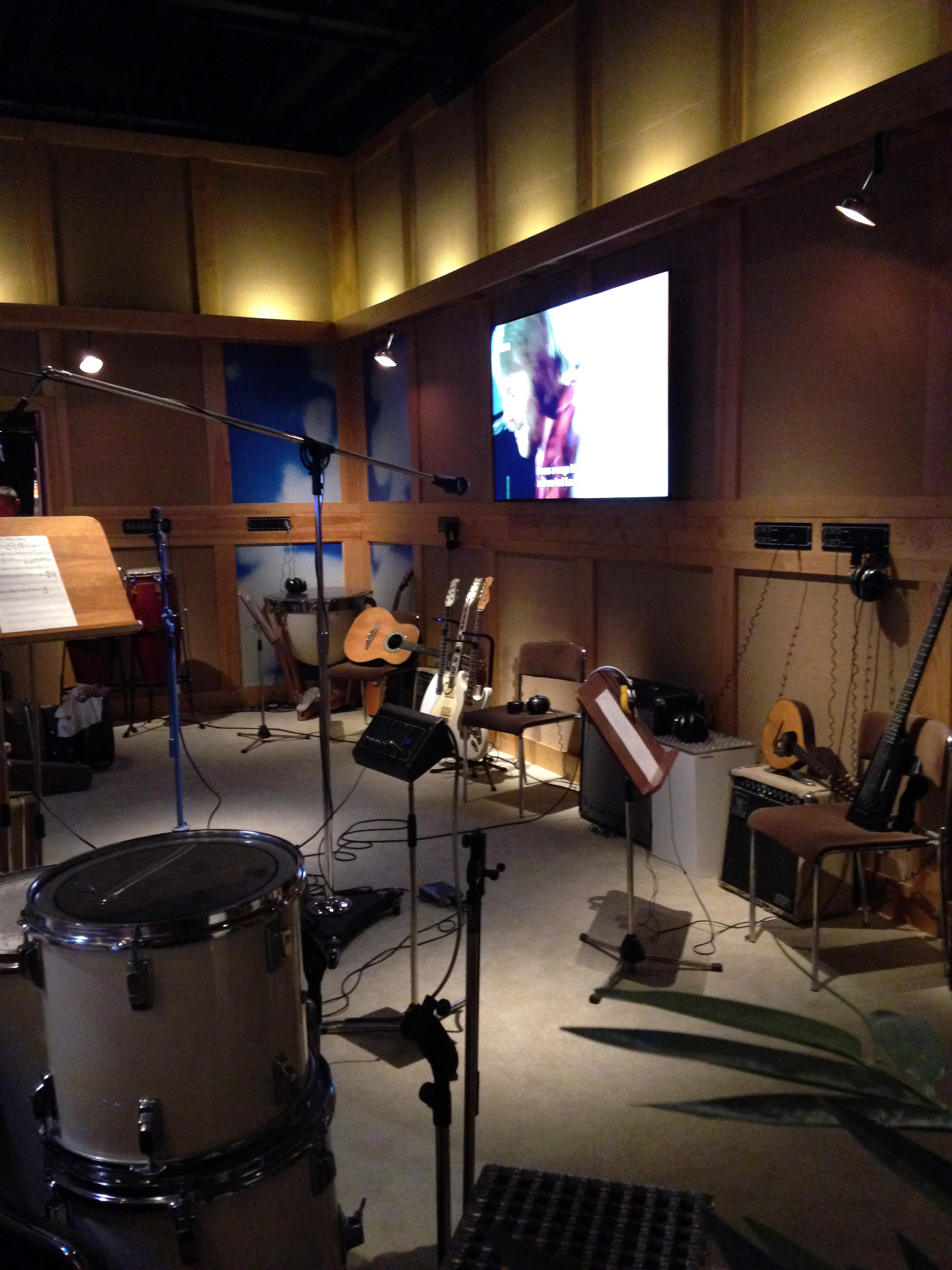 The reconstruction of Polar Music Studios, at ABBA - The Museum, Stockholm, Sweden.